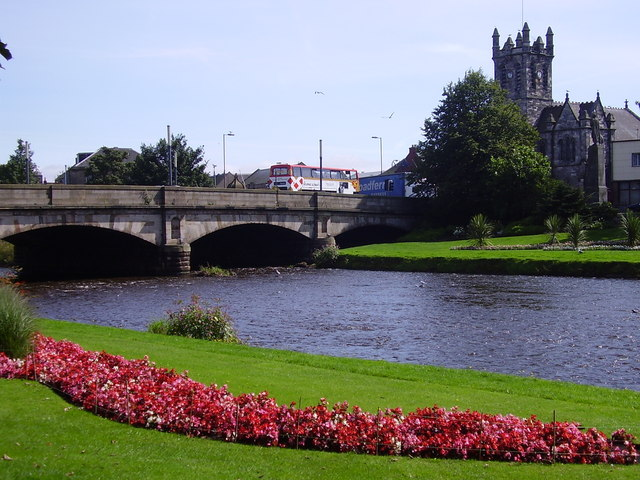 Town Bridge over River Esk at Musselburgh, Scotland There are six bridges over the Esk at Musselburgh, two carry traffic permanently, the old "Roman Bridge" is now only for pedestrians, two other pedestrian bridges and "the electric bridge" opens only on racedays at the local racecourse. The bridges link "the Burgh" with Fisherrow.